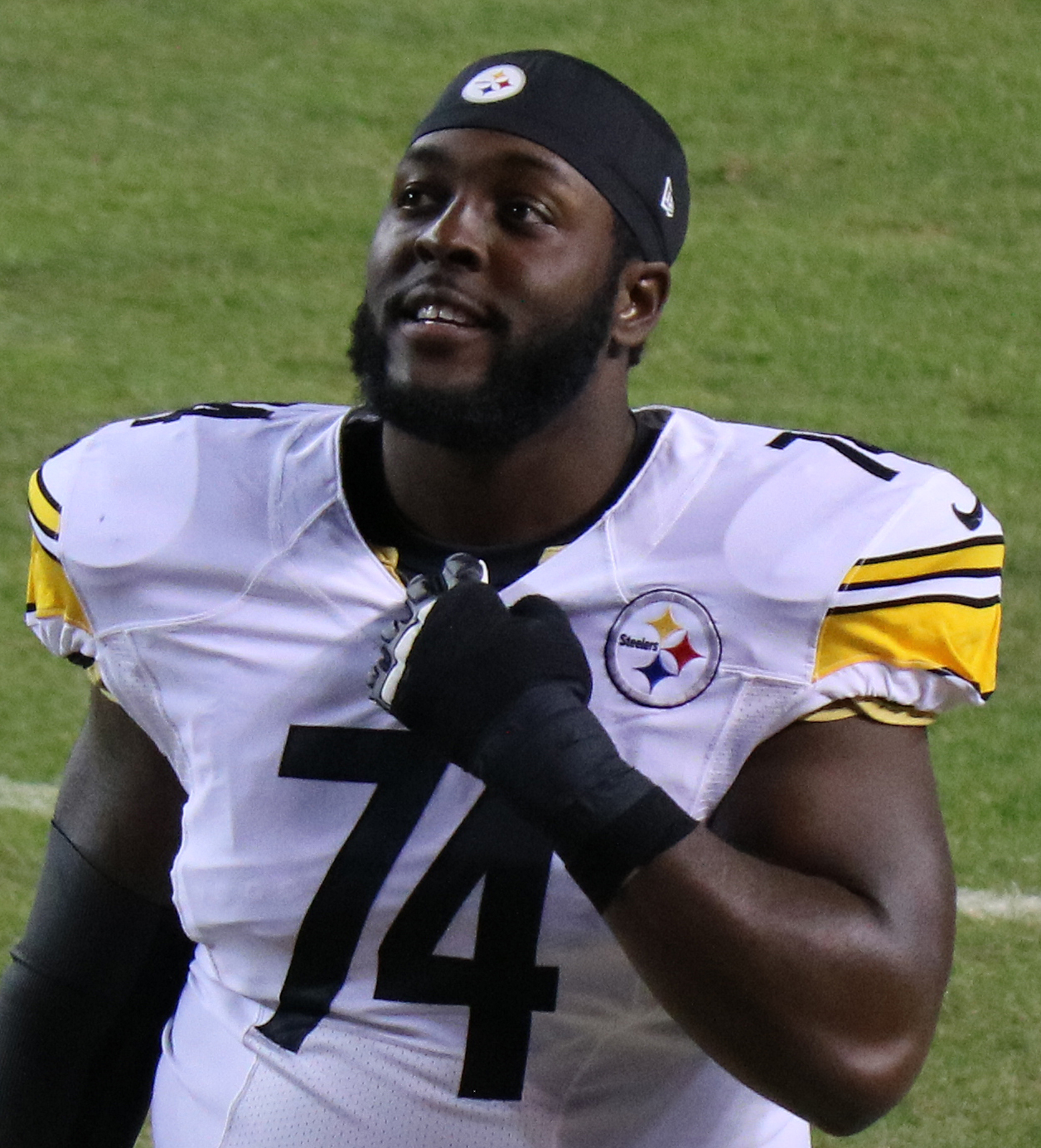 Chris Hubbard, a player on the National Football League.